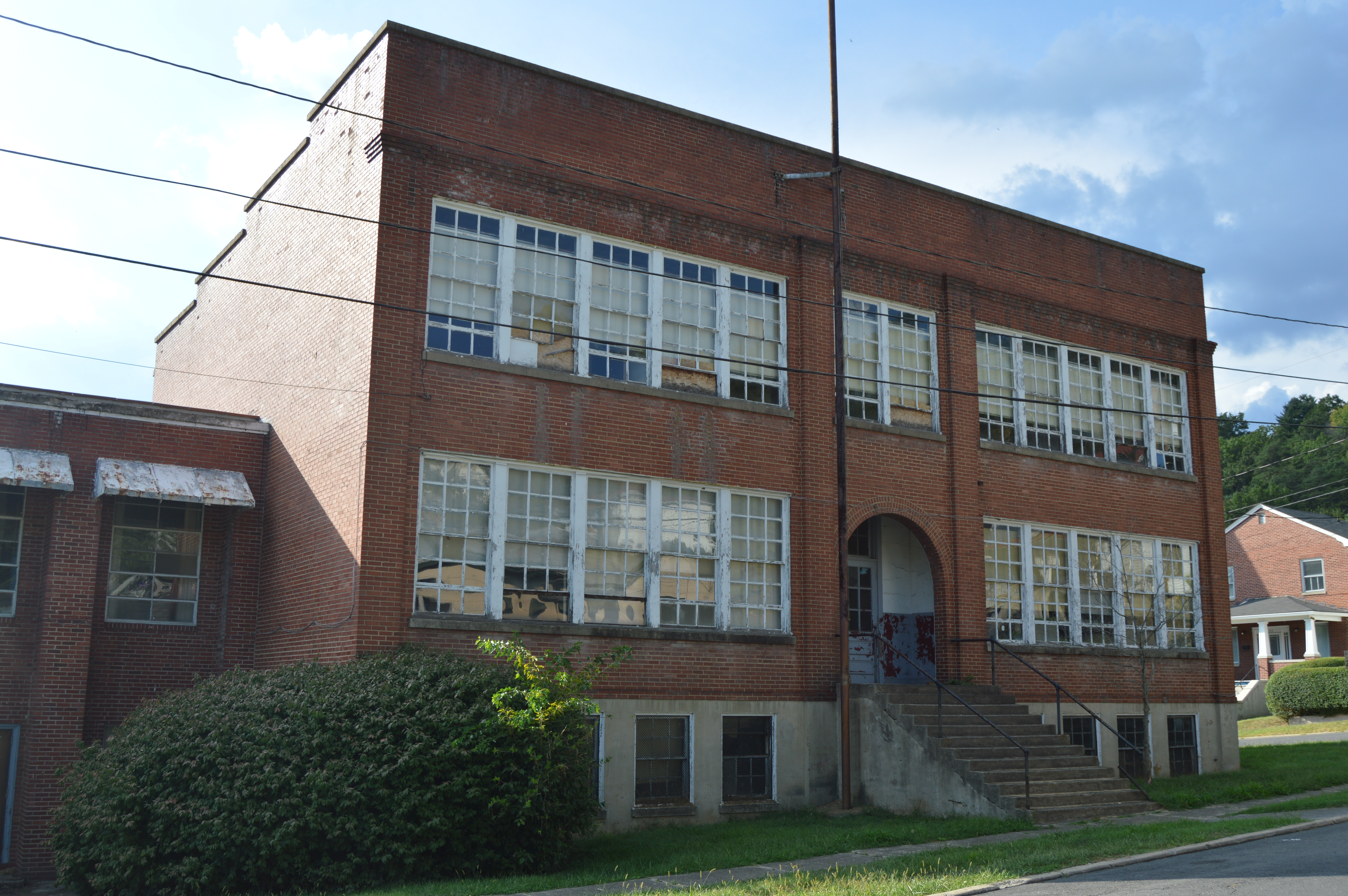 Front of the Jefferson School, located at the intersection of Church and "A" Streets in Clifton Forge, Virginia, United States. Built in 1926, it is listed on the National Register of Historic Places.